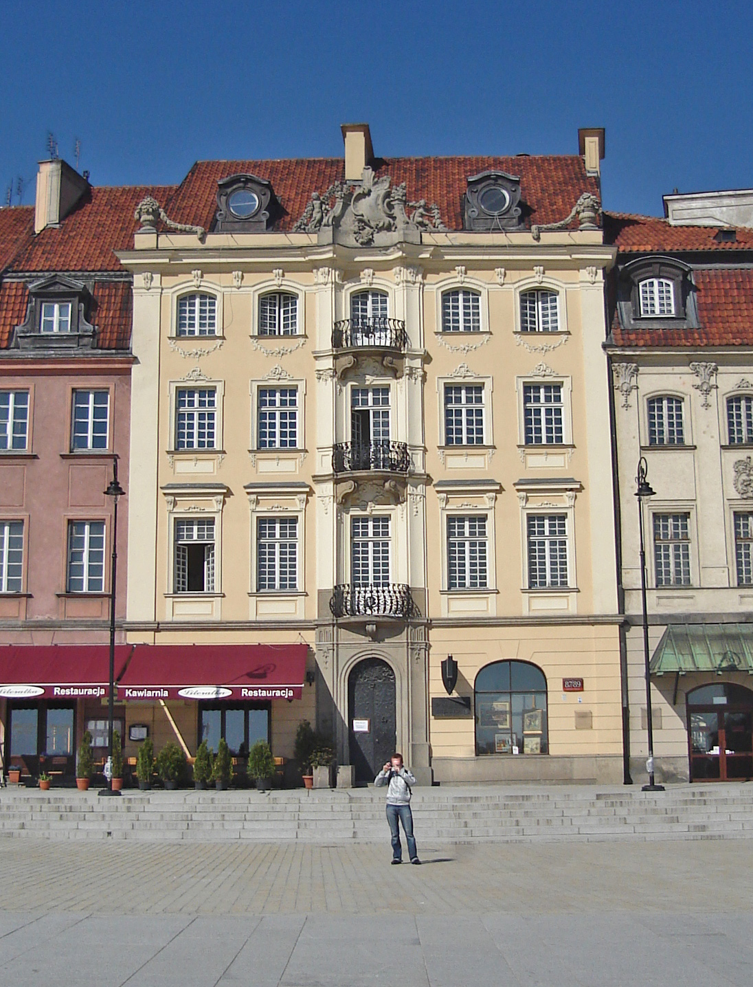 Joachim Pastorius House, Krakowskie Przedmieście 87 Street, Warsaw, Poland